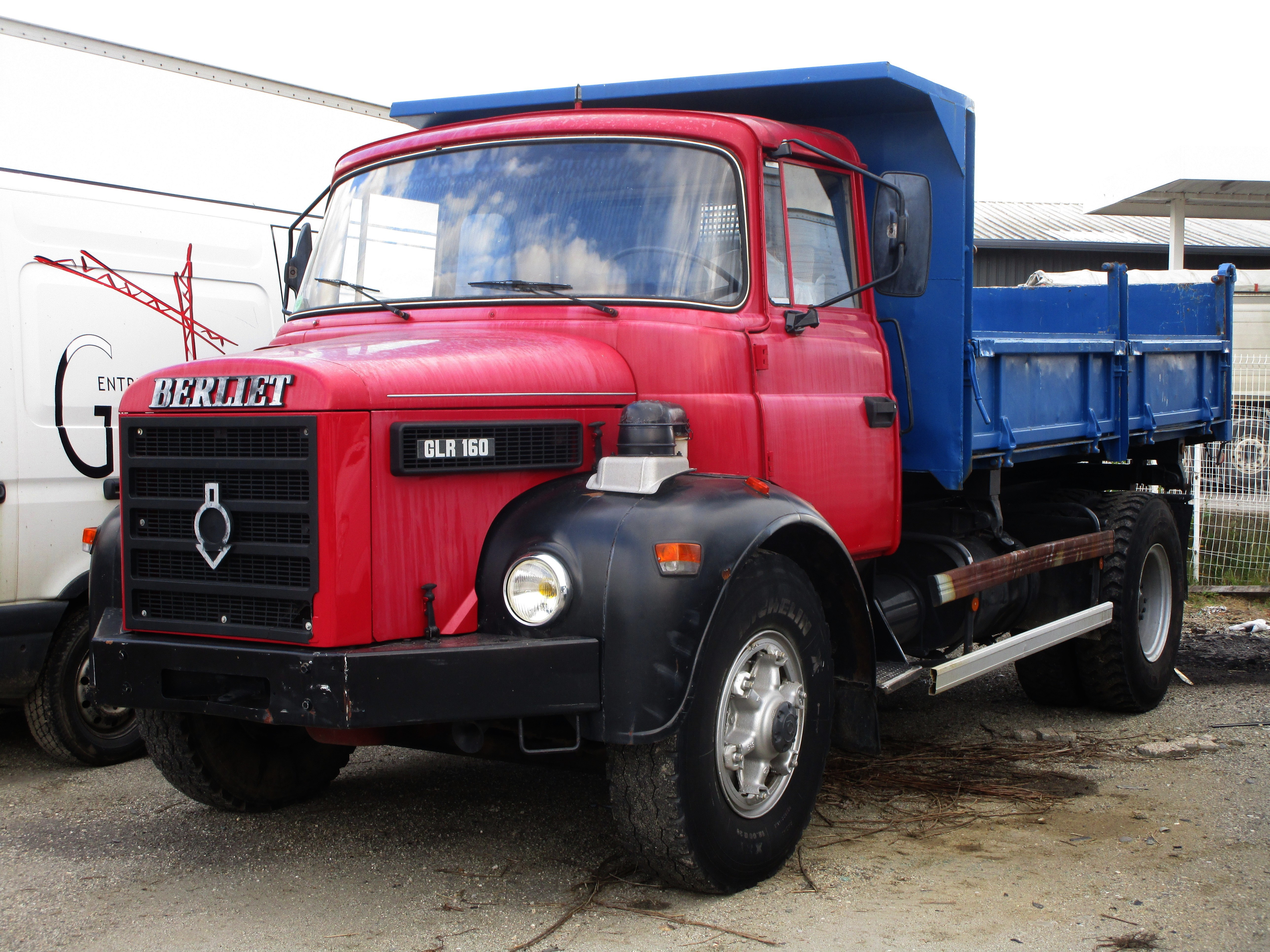 A Berliet GLR 160 parked in the yard of the garage Trucks Solutions (Voglans, France) on October 9, 2017.